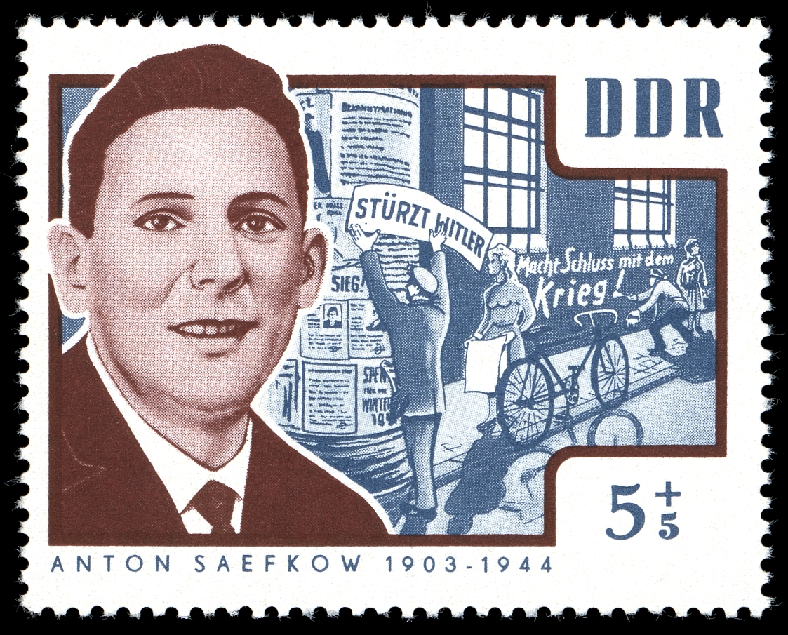 Ausgabepreis: 5+5 Pfennig First Day of Issue / Erstausgabetag: 24. März 1964 Auflage: 2.500.000 Entwurf: Sauer Druckverfahren: Offsetdruck Michel-Katalog-Nr: Ländercode-MiNr: 1014 Licensing This file is most likely NOT in the public domain. It has been marked for review, and will be deleted in due course if the review does not find it to be in the public domain. This file was previously considered to be in the public domain as a German stamp; it is possible that it is in the public domain for other reasons, in which case a new rationale will be applied as part of the review process. See below for the previous rationale. Previous public domain rationale, no longer applicable This stamp is in the public domain in Germany because it was released by the postal administration of the German Democratic Republic or the Soviet occupation zone (Deutschen Post der DDR) whose legal successor is the Federal Republic of Germany. Thus it is an official work according to German copyright law (§ 5 Abs. 1 UrhG).